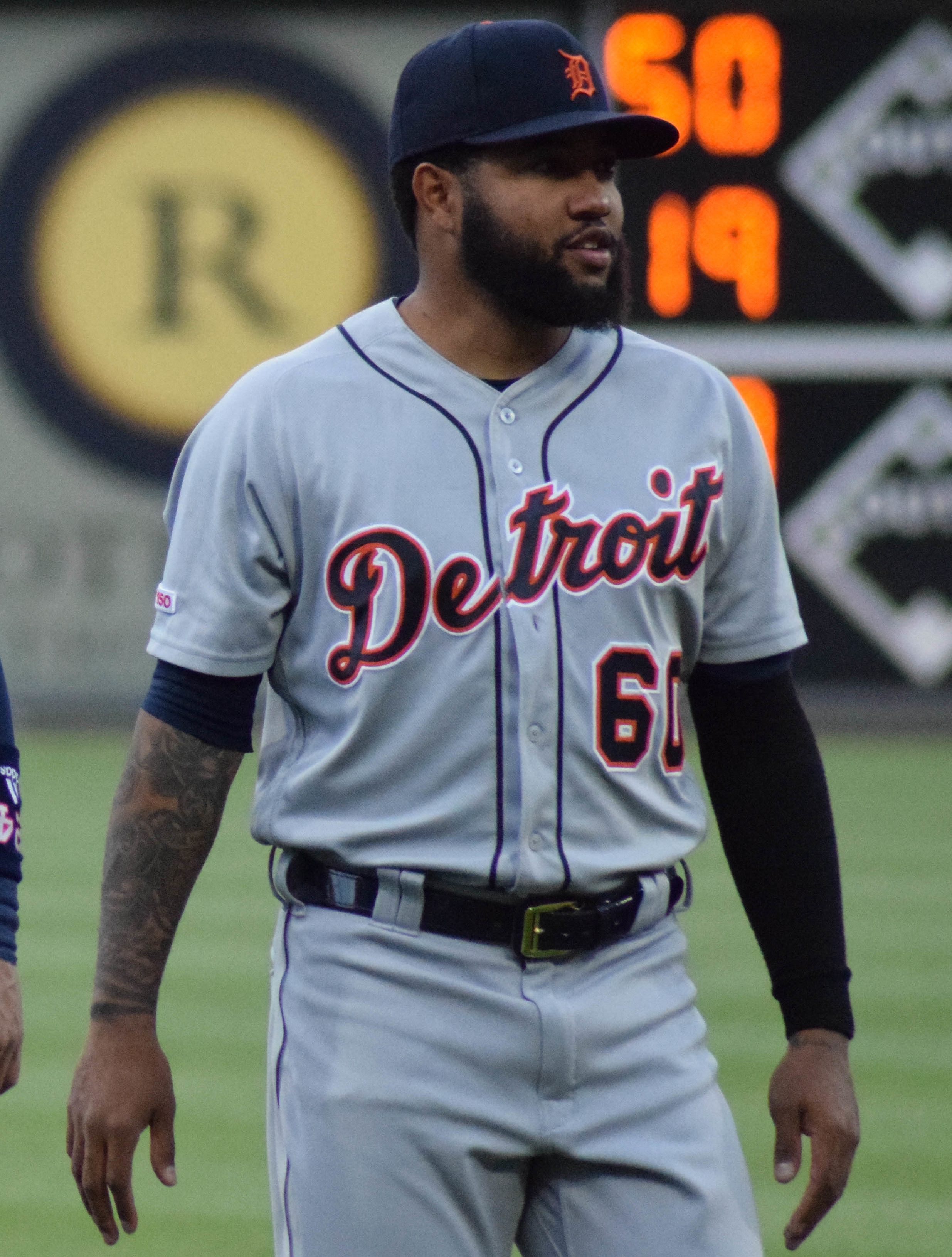 Miguel Cabrera and Ronny Rodriguez of the Detroit Tigers at Citizens Bank Park in Philadelphia in April 2019.